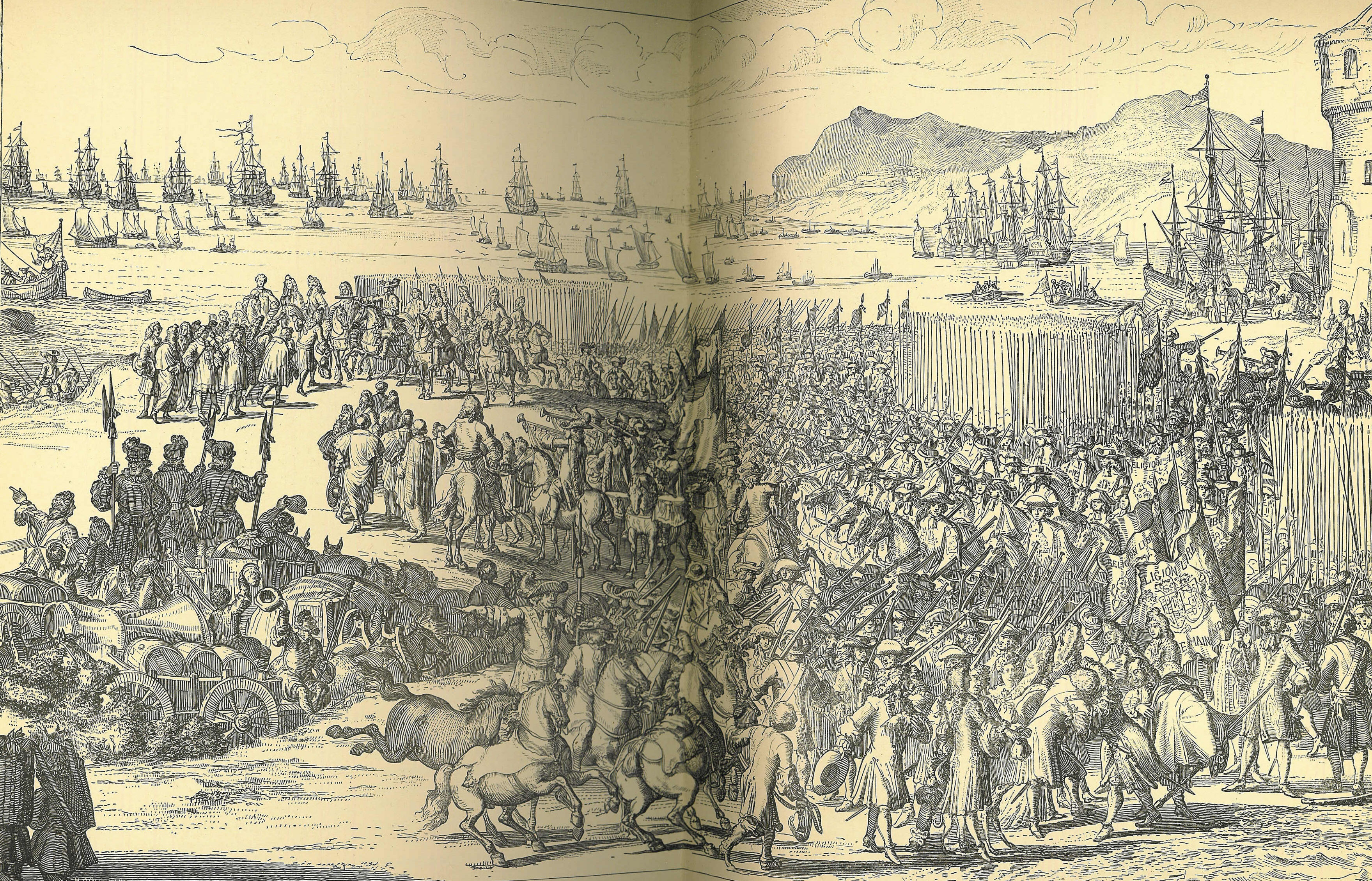 Arrival of William III of Orange in England, November 15, 16, 1688 (After a contemporary copperplate by Romain de Hooghe.)